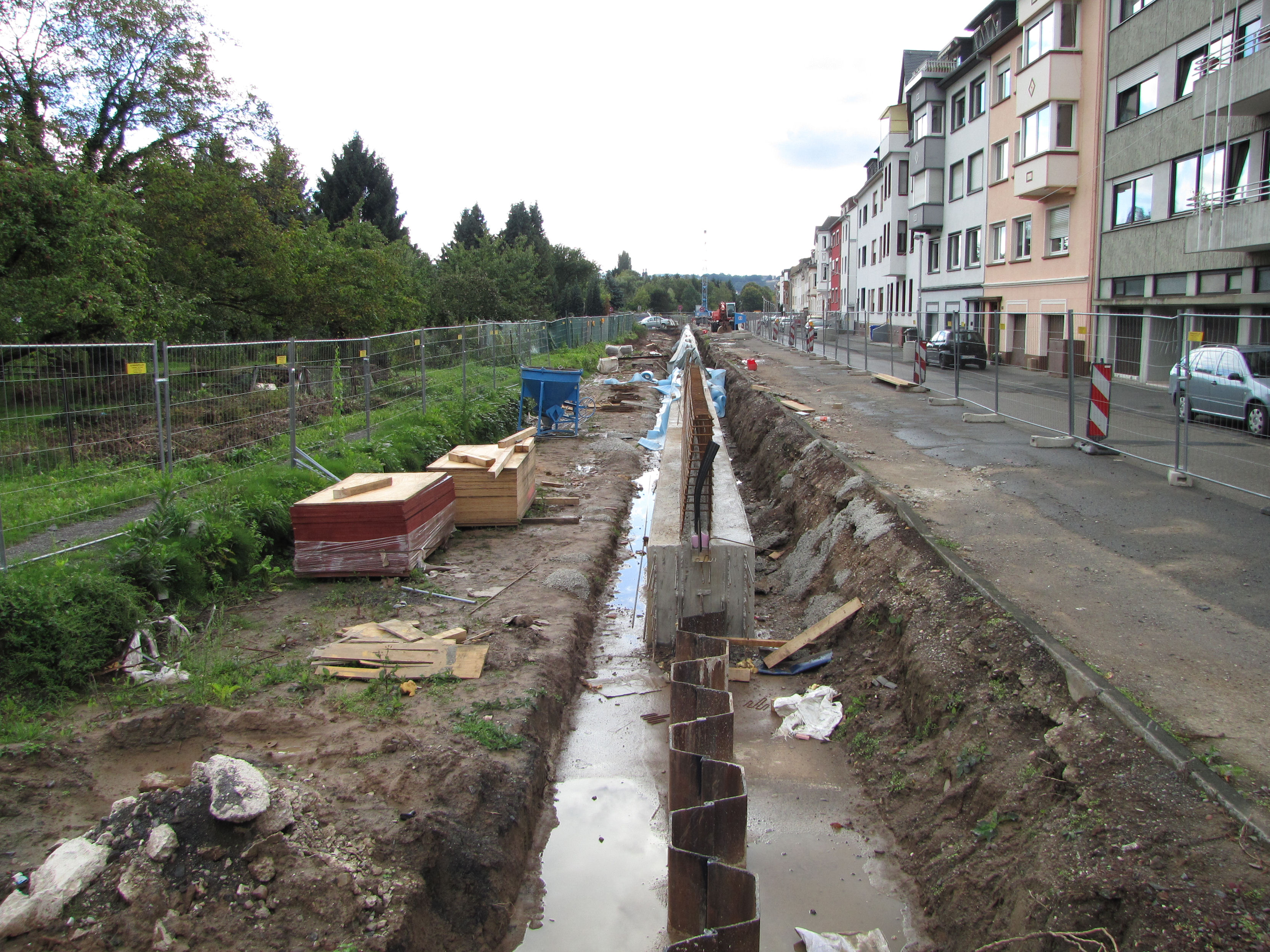 Flood control in Koblenz-Neuendorf